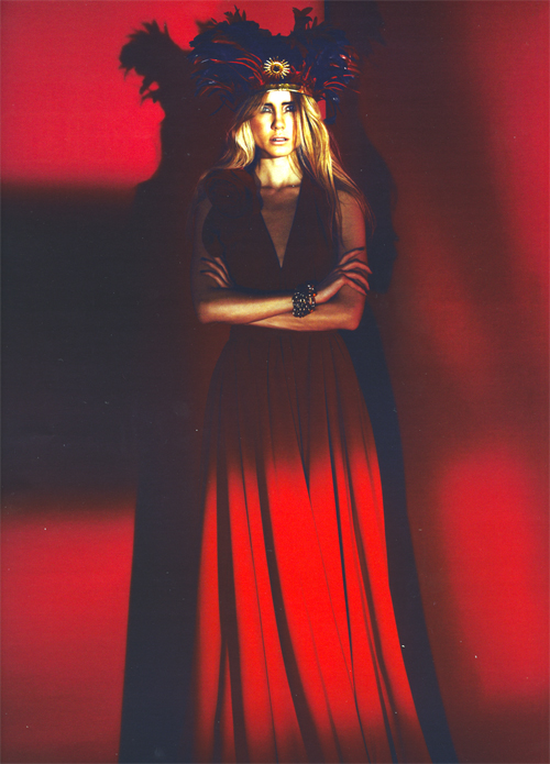 Wright & Teague Headdress